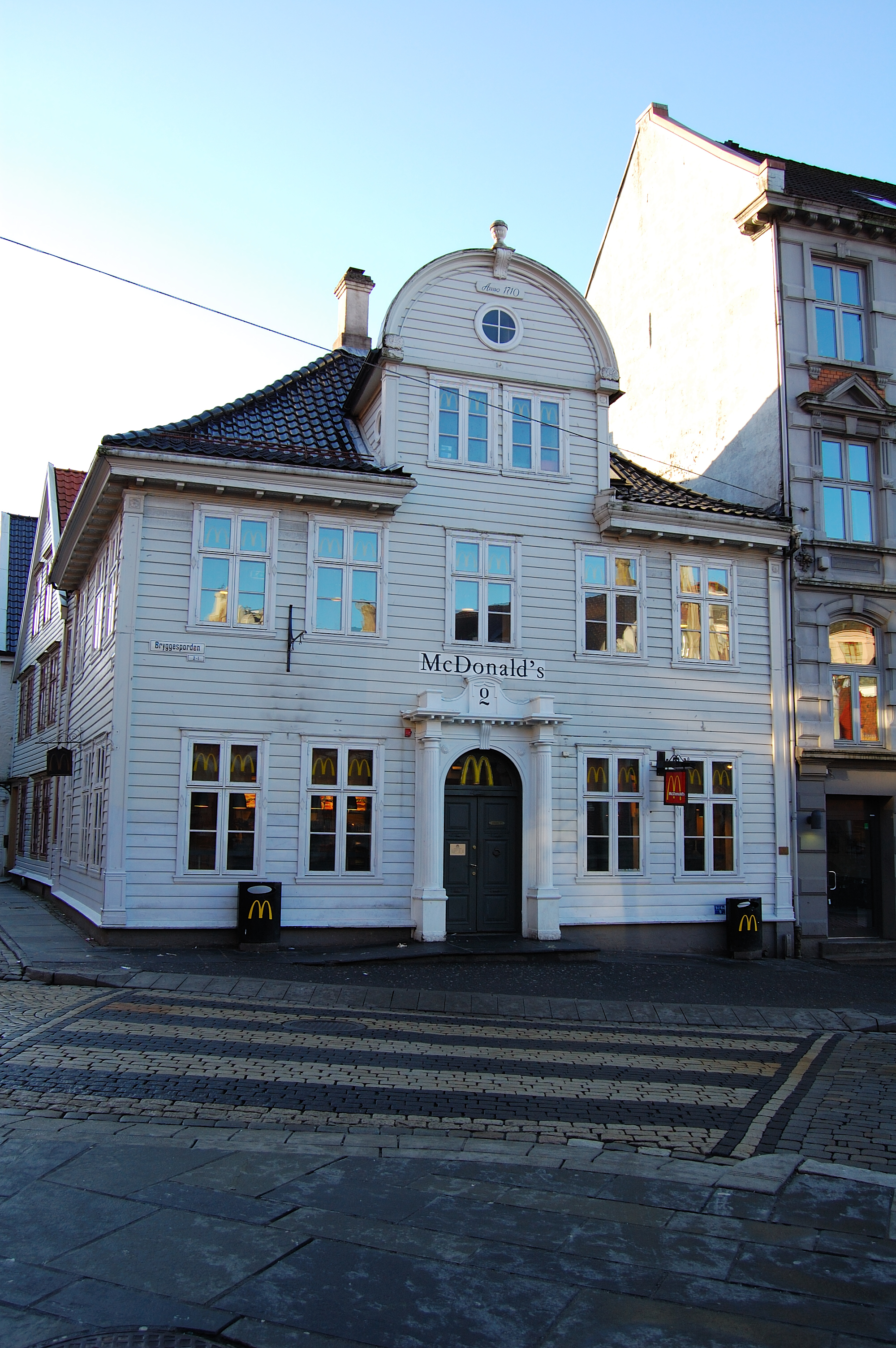 McDonald's in Bergen, Norway.